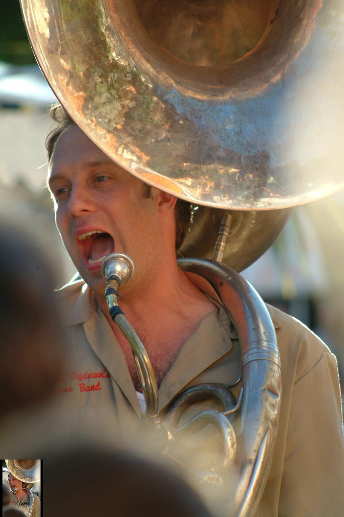 Mama Digdown's Brass Band at the Ascona Jazz Festival in Ascona, Ticino, Switzerland